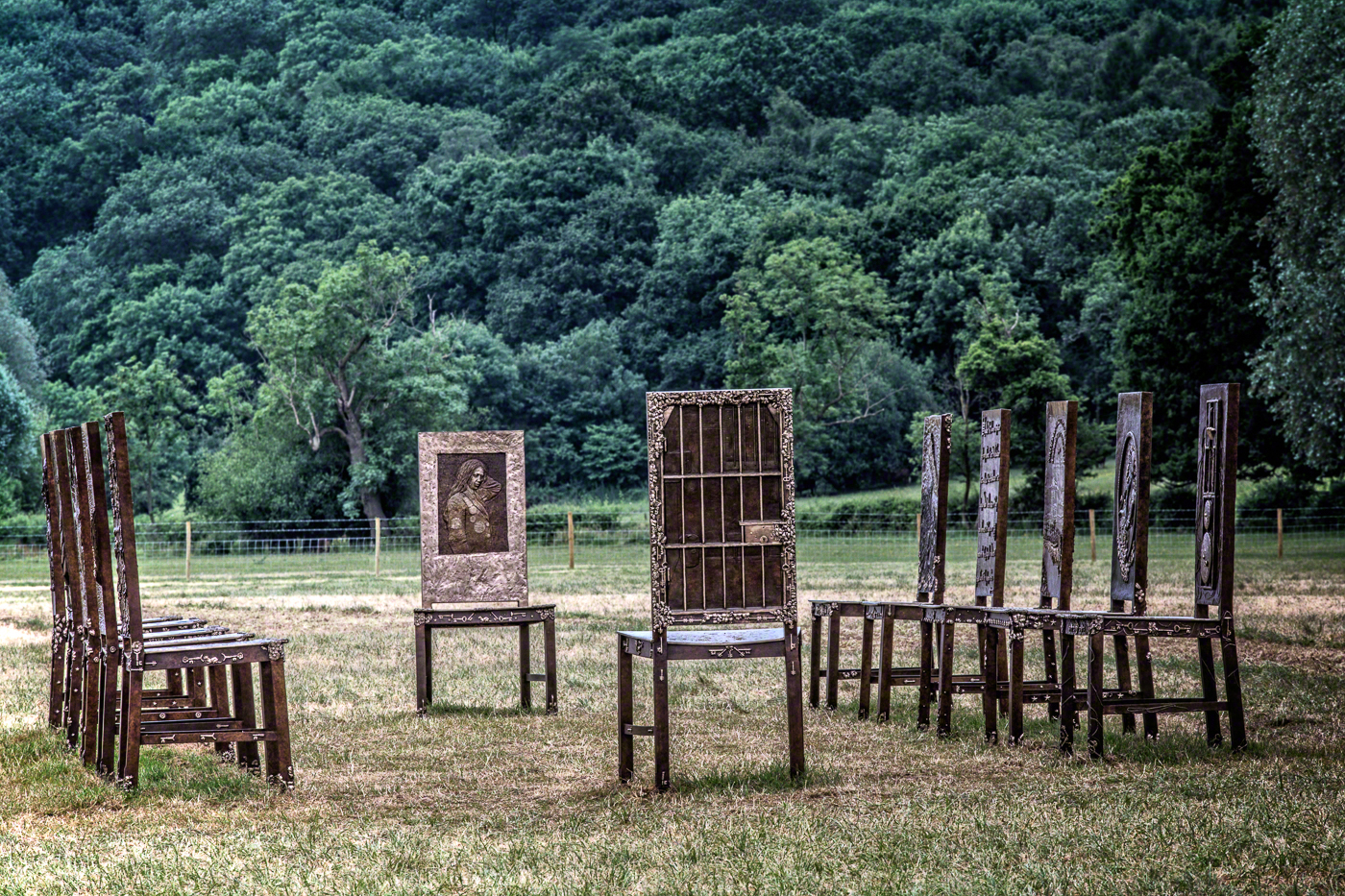 The Jurors (2015), an art installation at Runnymede sculpted by Hew Locke to commemorate the 800th anniversary of the sealing of Magna Carta.